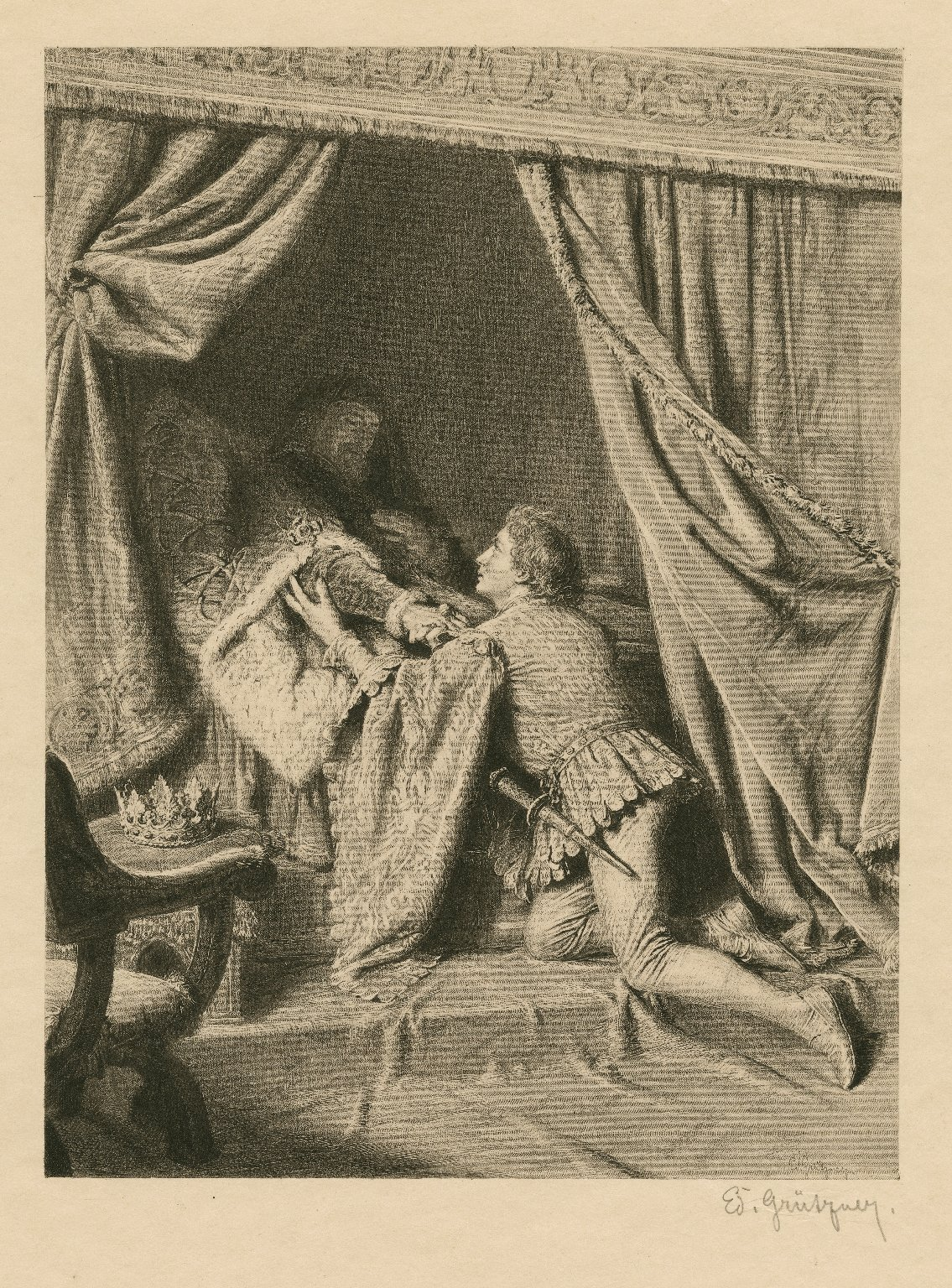 A late 19th or early 20th century print of Act IV, Scene iii: Hal with King Henry in his sickbed.